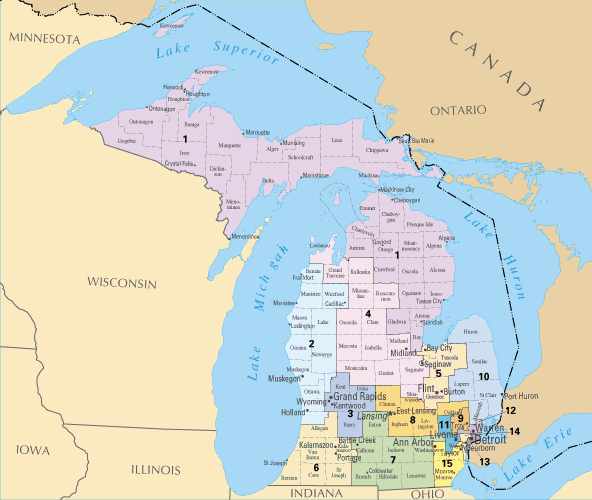 Michigan's congressional districts prior to 2012 redistricting